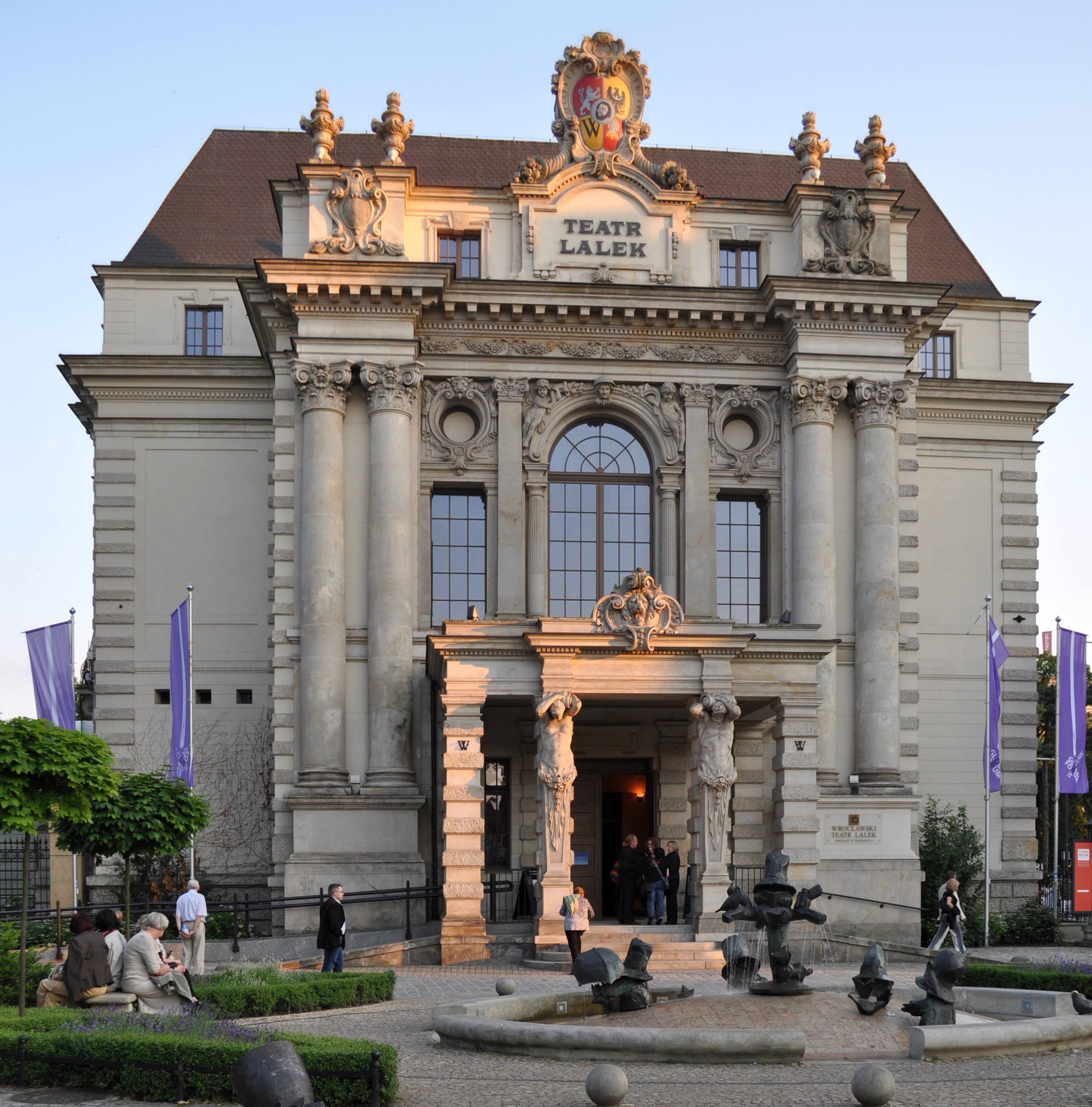 Puppet Theatre in Wrocław